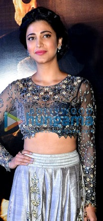 Haasan at Audio release of 'Shamitabh'